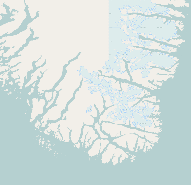 Southern tip of Greenland Geographic limits of the map: N: 61.24° S: 59.6° W: -45.95° E: -42.53°